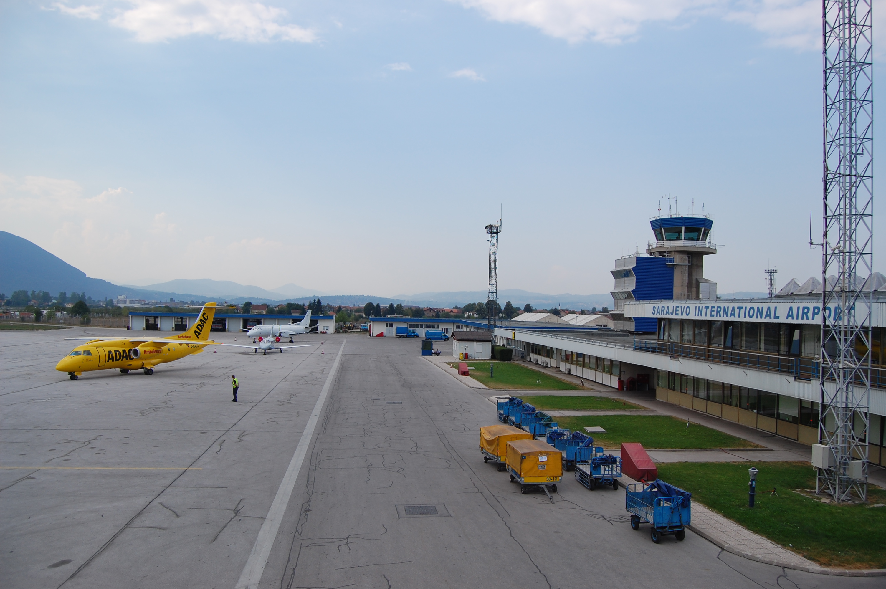 ADAC Ambulance Service at Sarajevo International Airport